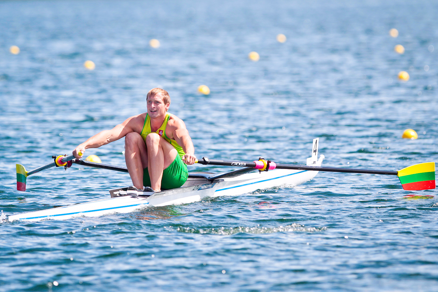 Lithuanian rower Mindaugas Griskonis